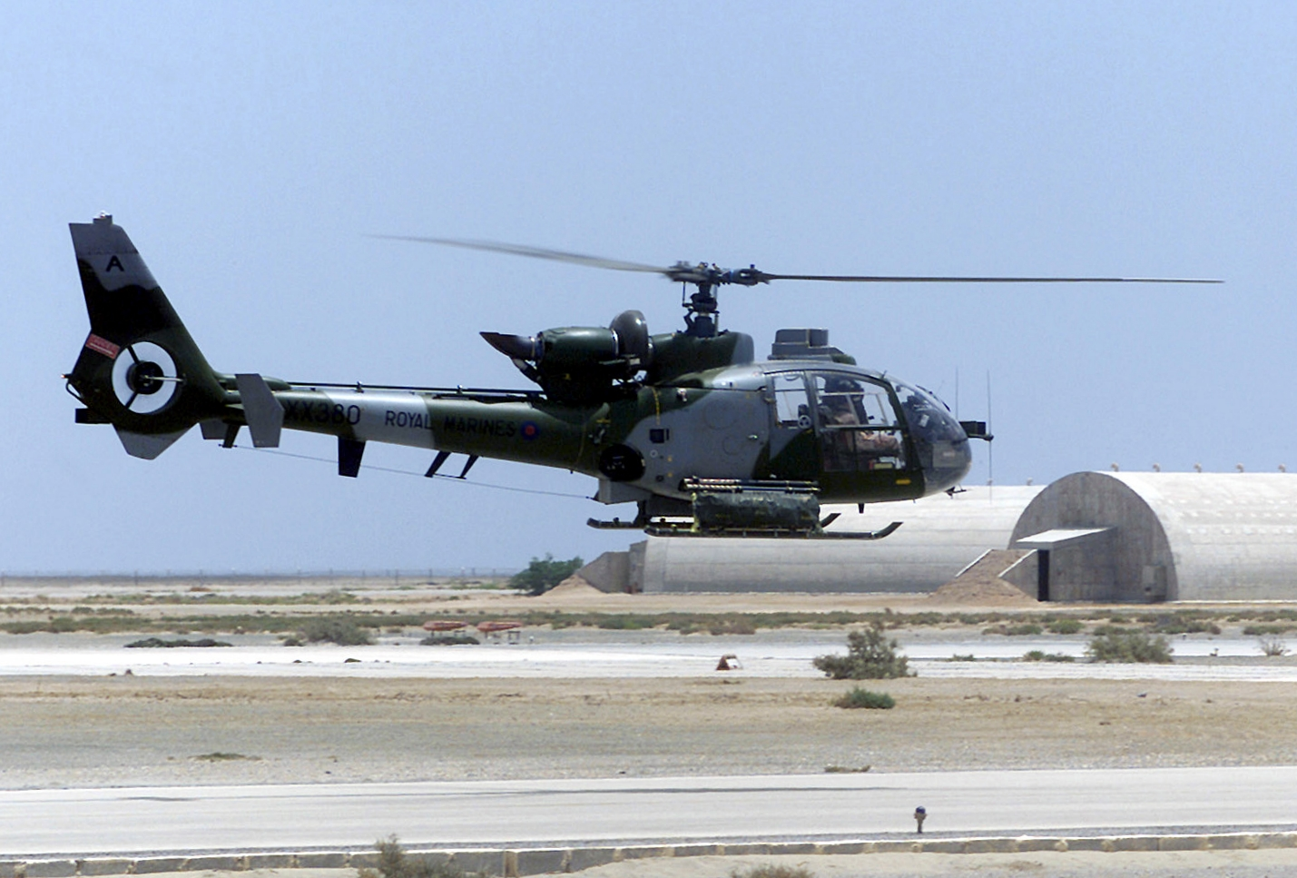 A British Royal Marines Aérospatiale/Westland SA.341B Gazelle AH1 helicopter (serial XX380) piloted by Captain Jack Frost of the Commando Helicopter Force, Royal Naval Air Station, Yeovilton, Somerset (UK) takes off from Camp Justice in Masirah, Oman.